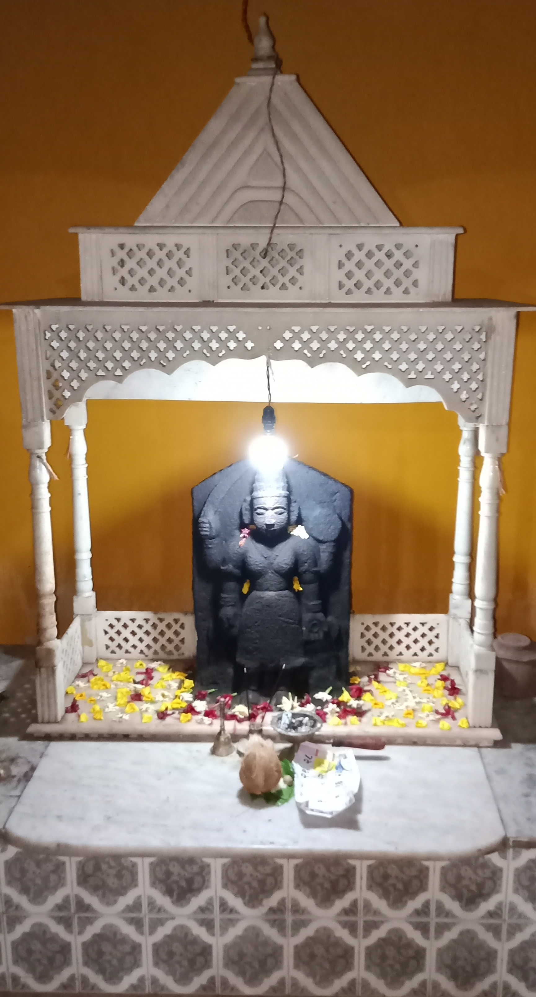 There is a temple of Satmai Devi in the middle of the village, it is a village goddess.